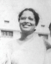 Akhtar Imam with her three daughters in 1954